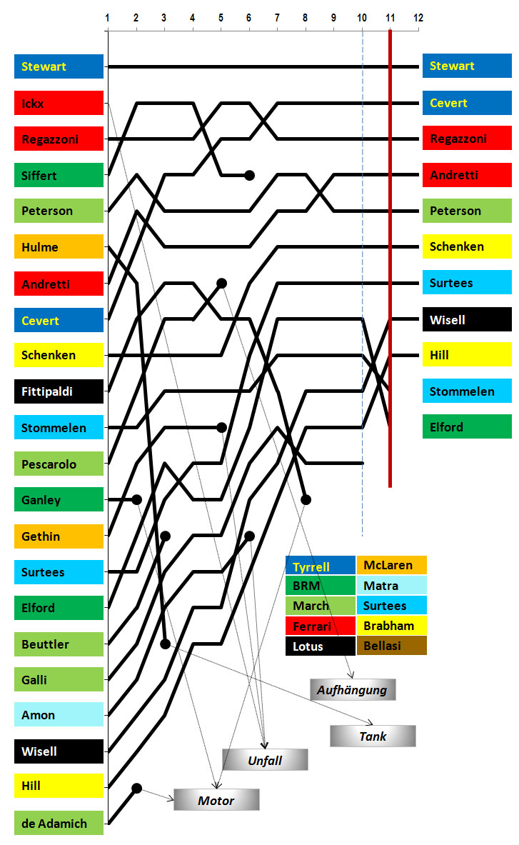 Round table German Grand Prix 1971